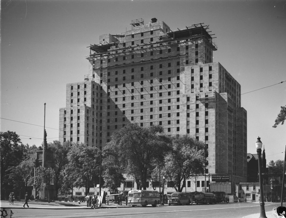 For documentary purposes the original description provided by BAnQ has been retained. Additional descriptive text may be added by Wikimedians with the wiki description = parameter, but please do not modify the other fields.